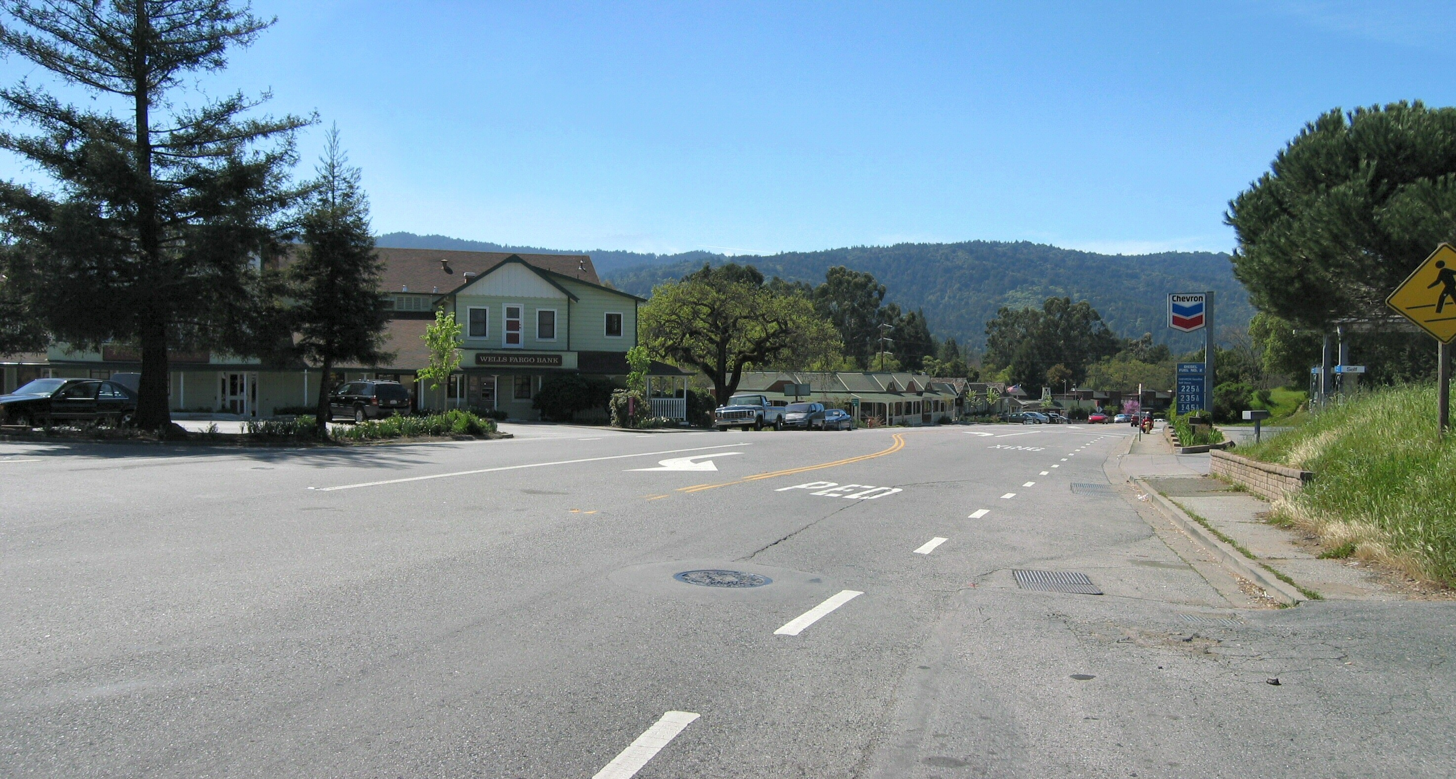 The town of Woodside, California. Image taken in early 2004 by Jawed Karim. 06:29, 1 July 2005 Jawed 2944x1576 (1849202 bytes) (The town of Woodside, California. Image taken in early 2004 by Jawed Karim. GFDL ) 00:01, 29 May 2004 Jawed 883x473 (184785 bytes) (The town of Woodside, California. Image taken in early 2004 by Jawed Karim msg:GFDL )